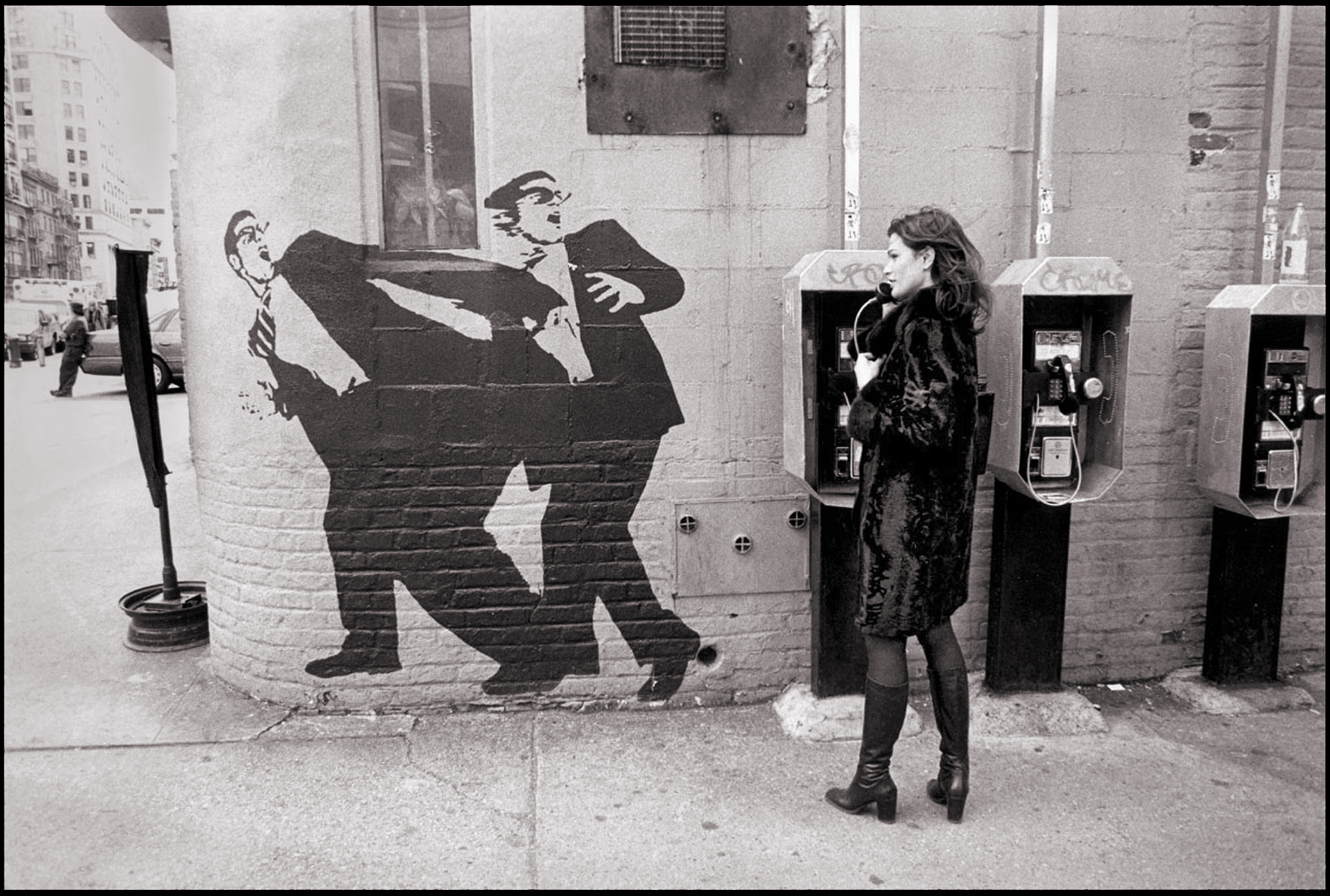 East Village, New York City, 1998